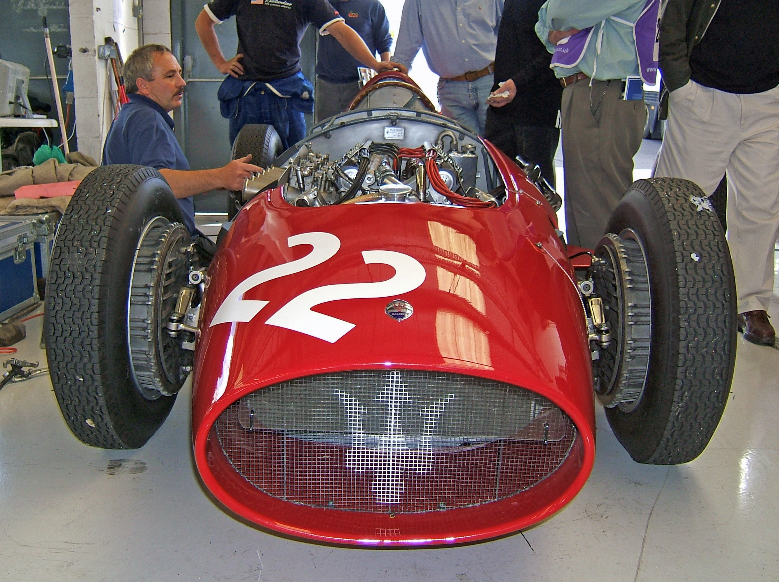 A Maserati 250F Formula One car receives attention in the pit garages, during the 2007 Silverstone Classic race meeting.